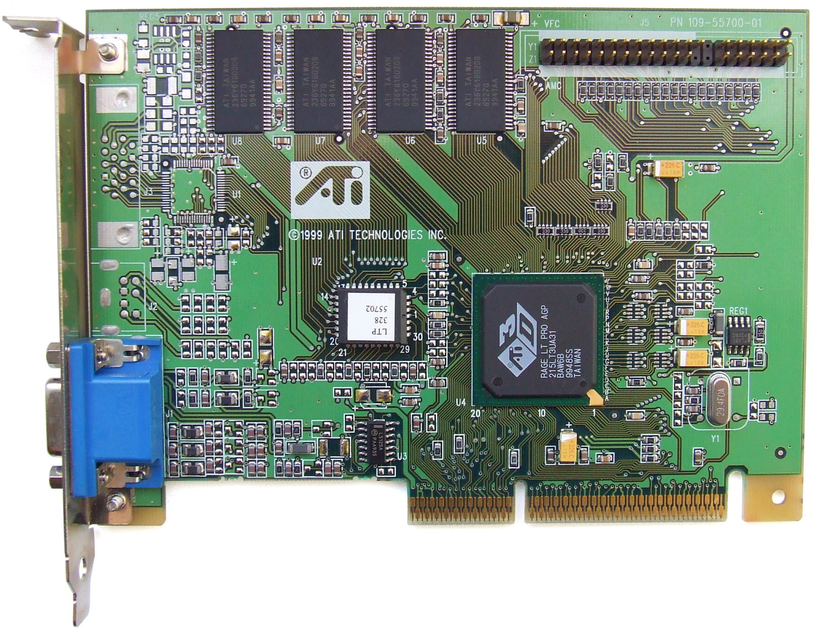 Built-by-ATI Rage LT Pro AGP video card. It is based on the ATI Rage LT Pro AGP graphics processing unit and equipped with 8 MB of BBA SDRAM.